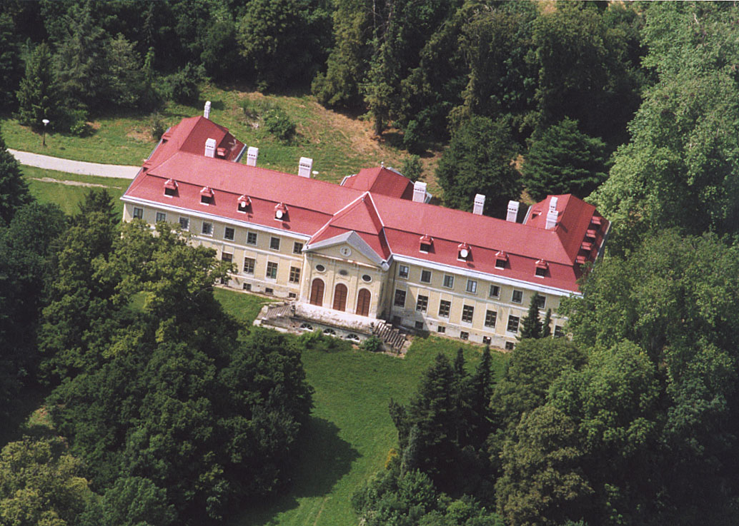 The palace of the Széchenyi family in Sopronhorpács This is a photo of a monument in Hungary. Identifier: 5102